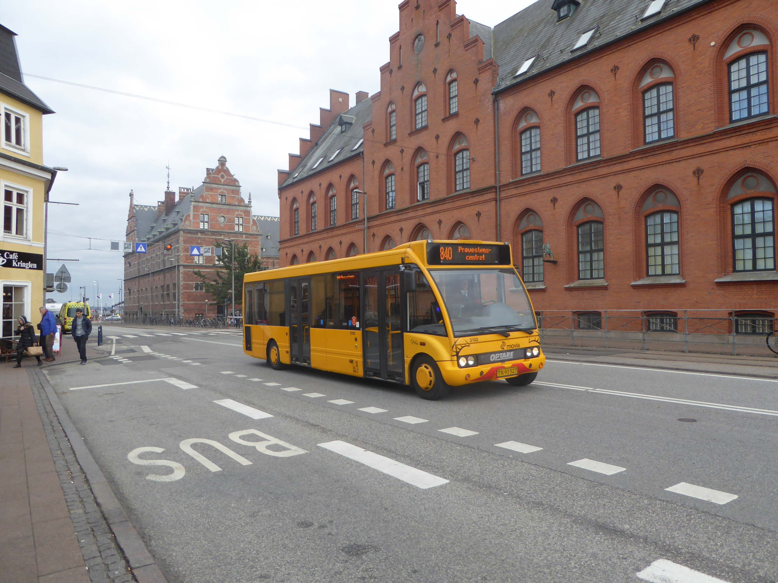 Movia bus line 840 on Jernbanevej at Helsingør Station in Denmark